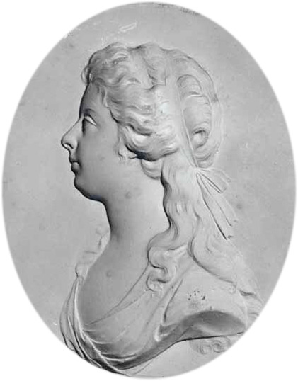 Hester Clifford (Amsterdam , 14 May 1766 - The Hague, 11 April 1826), wife of Gijsbert Karel van Hogendorp.